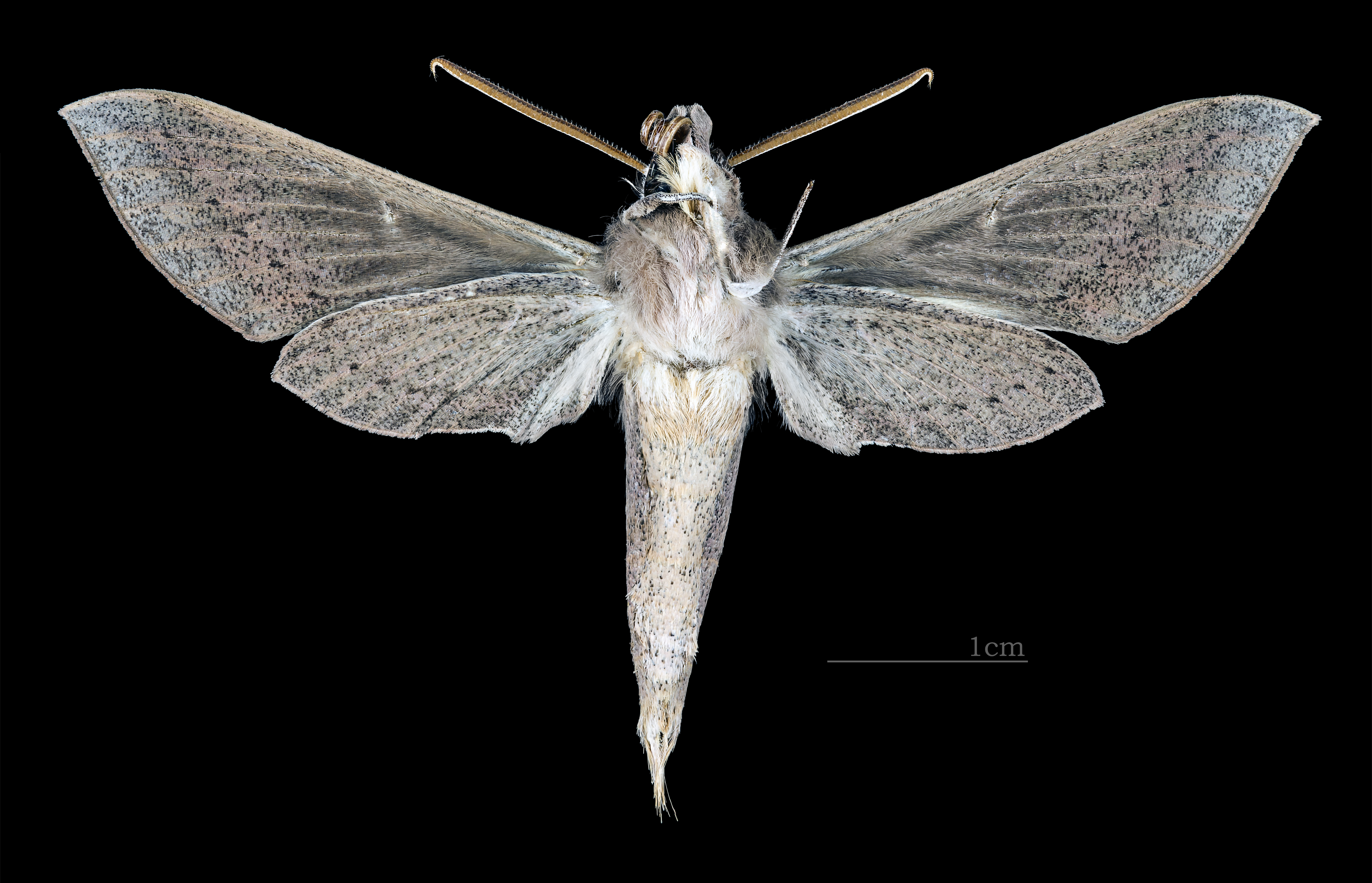 Xylophanes suana - △ Ventral side Collection of the Mathematician Laurent Schwartz